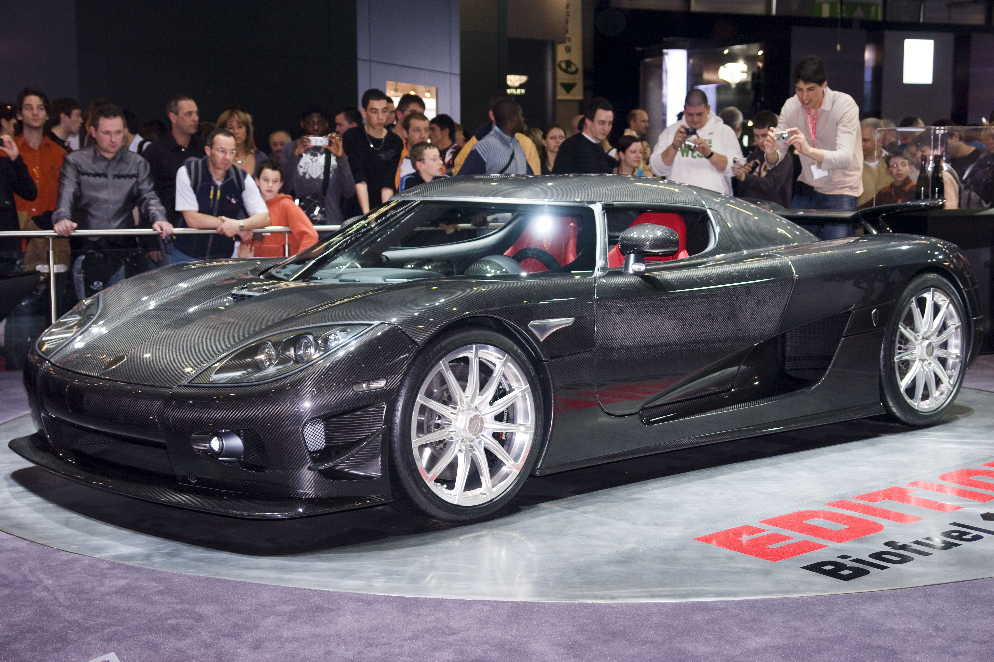 The Koenigsegg CCXR - a special edition supercar that runs on bio fuel. The standar (petroleum) version produces near 1000 horse-power (bhp). The biofuel version however is even more powerful, at around 1018bhp. 0-60mph is 3.2sec. Top Speed:250mph / 400kmh Cost wieghs in at near $654,400